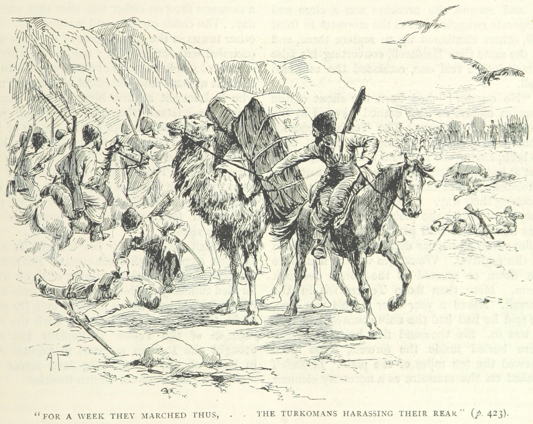 Russian troops retreat through the desert after the failed Battle of Geok Tepe in 1879 (not the successful attack in 1880).